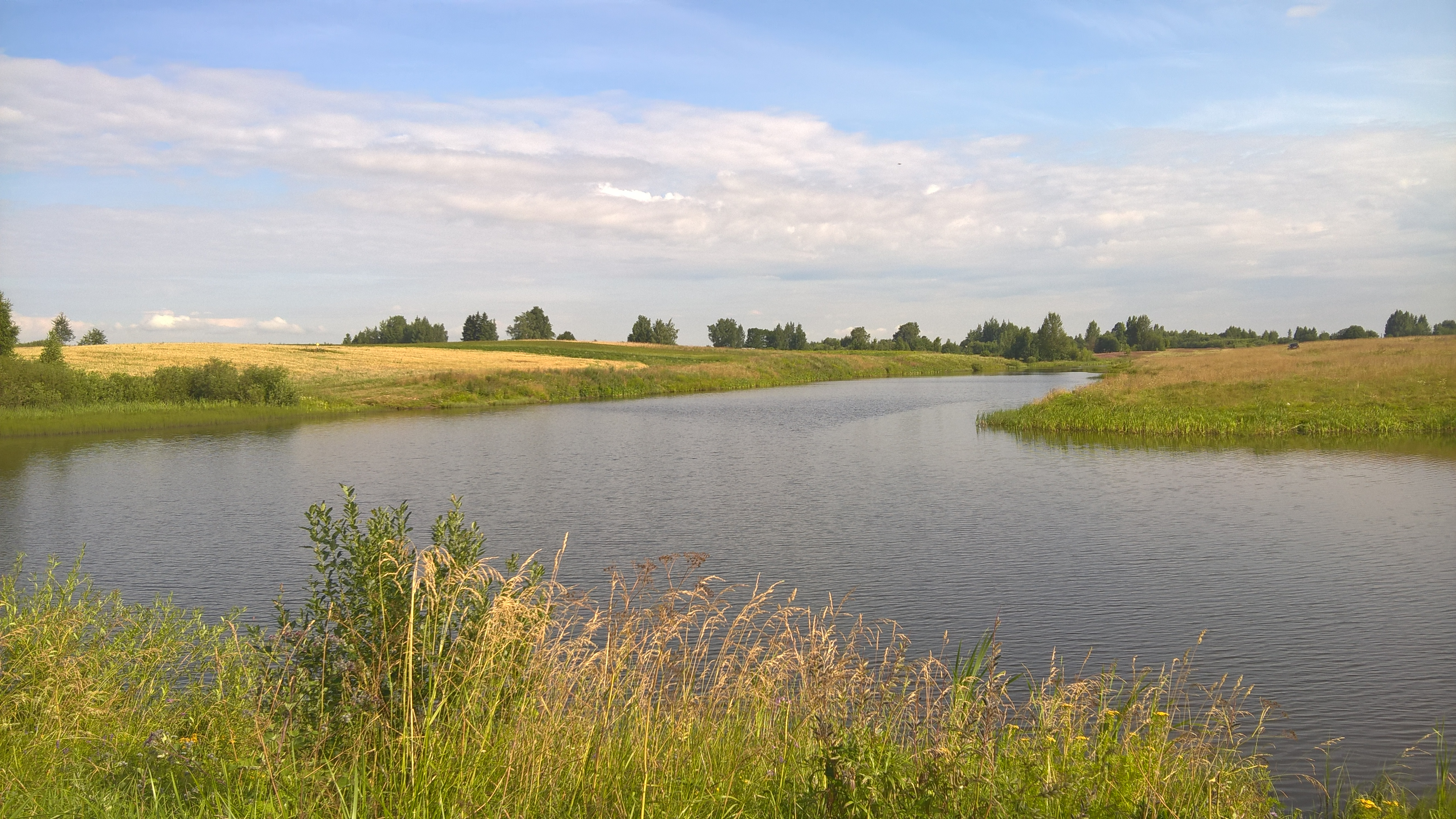 Tributary of the river Dnieper — Niehaŭka. River reservoir. Orsha District. Belarus. Беларуская (тарашкевіца): Правы прыток Дняпра — Негаўка. Вадасховішча. Аршанскі раён Беларусі.